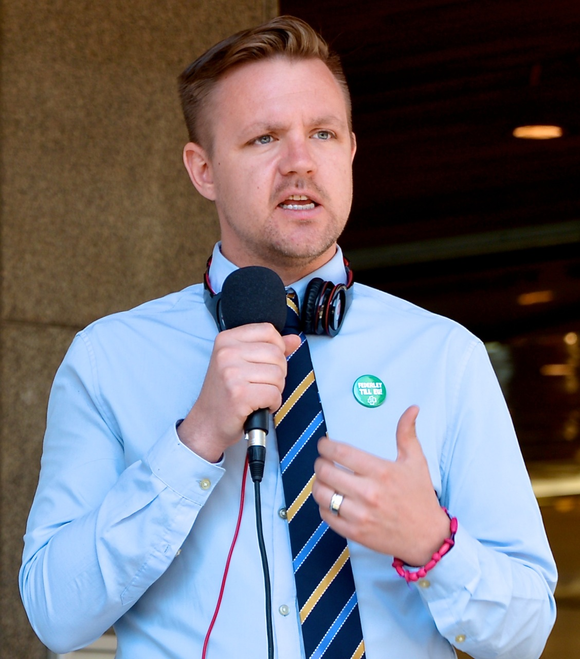 Fredrick Federley speaks at Sergels torg in Stockholm May 24 2014, before the European election the next day.